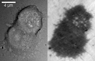 Chromaffin cell imaged using differential interference contrast (DIC; left) and using interference reflection microscopy (IRM; right).